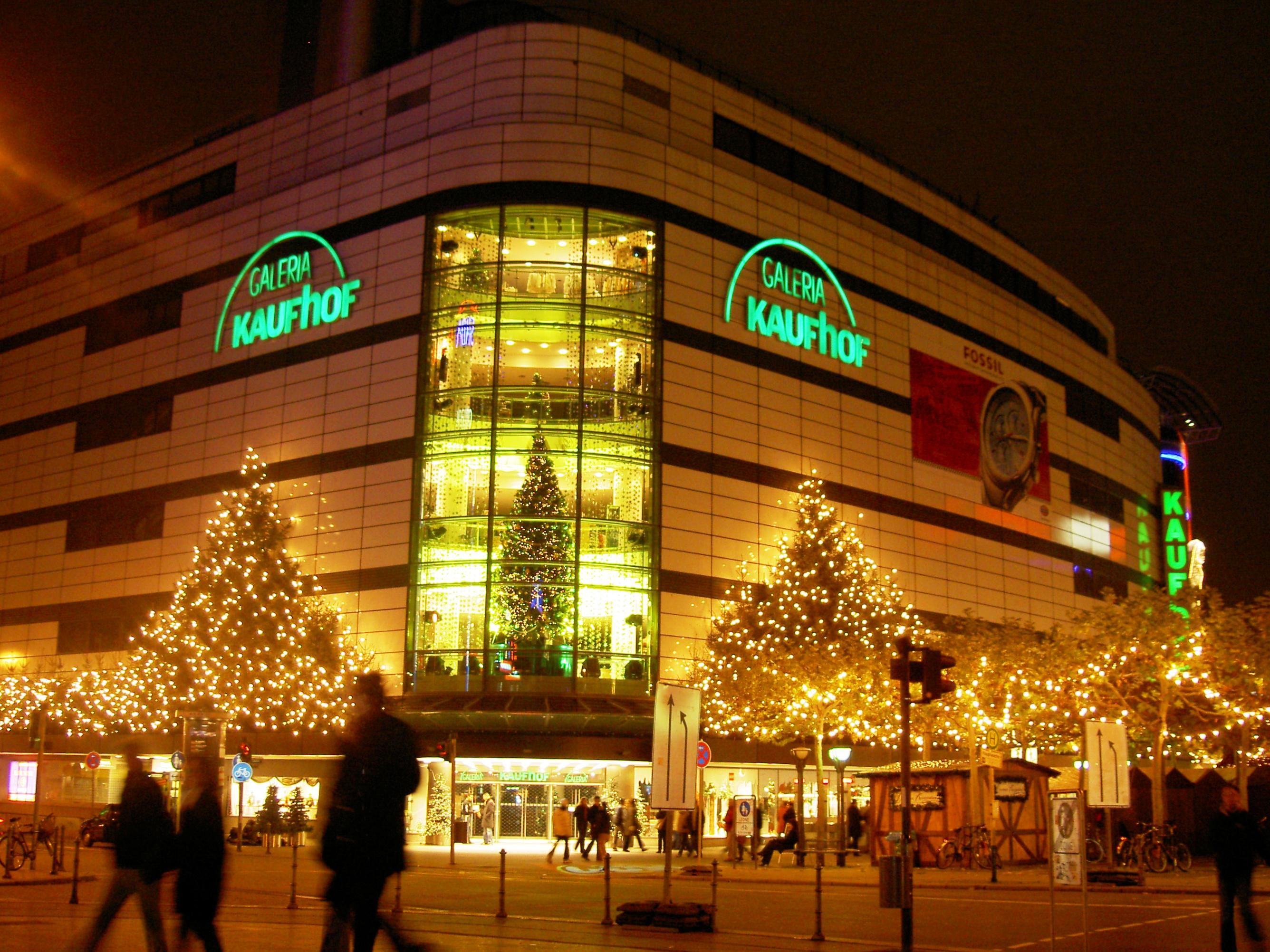 Kaufhof Zeil in Frankfurt (Main), Germany